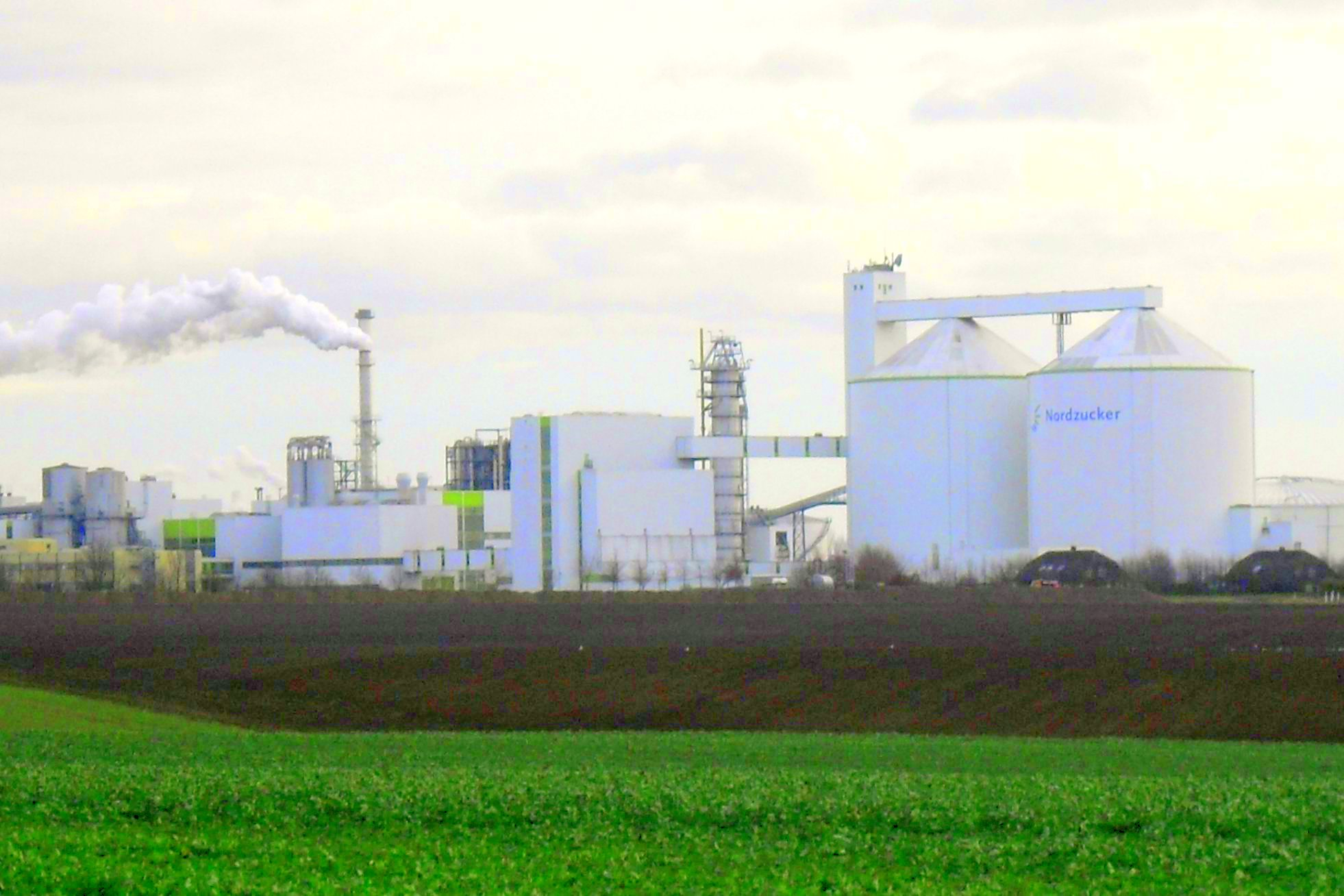 sugar factory of Nordzucker AG in Klein Wanzleben, Germany